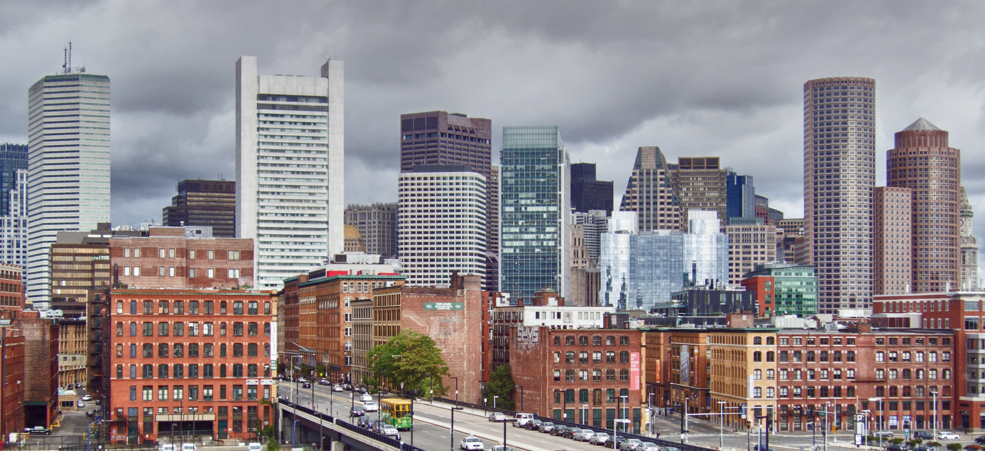 Boston skyline on a windy, rainy day